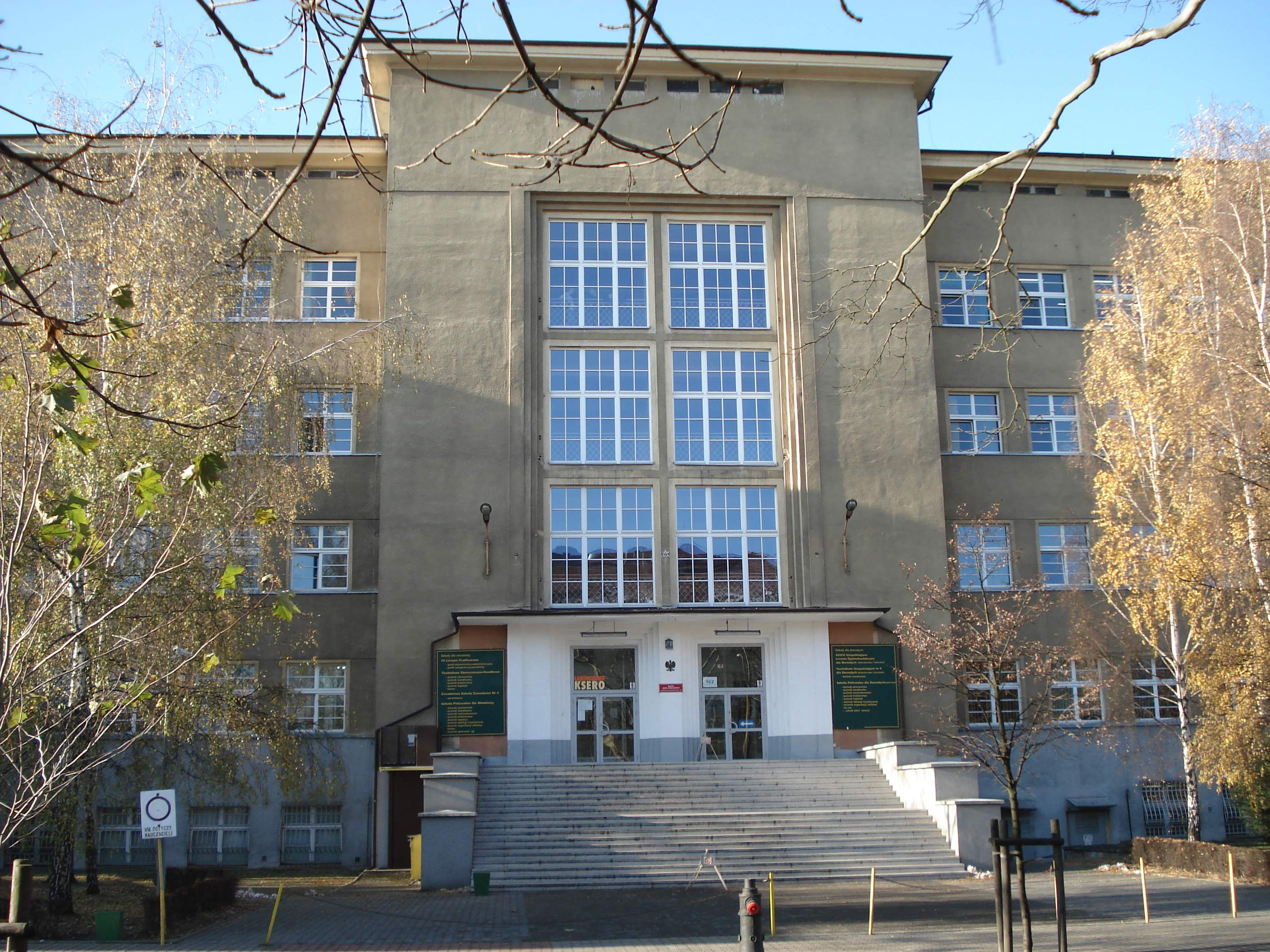 School of Business in Poznań, Śniadeckich Street. Designed by Stefan Cybichowski, 1927-1928